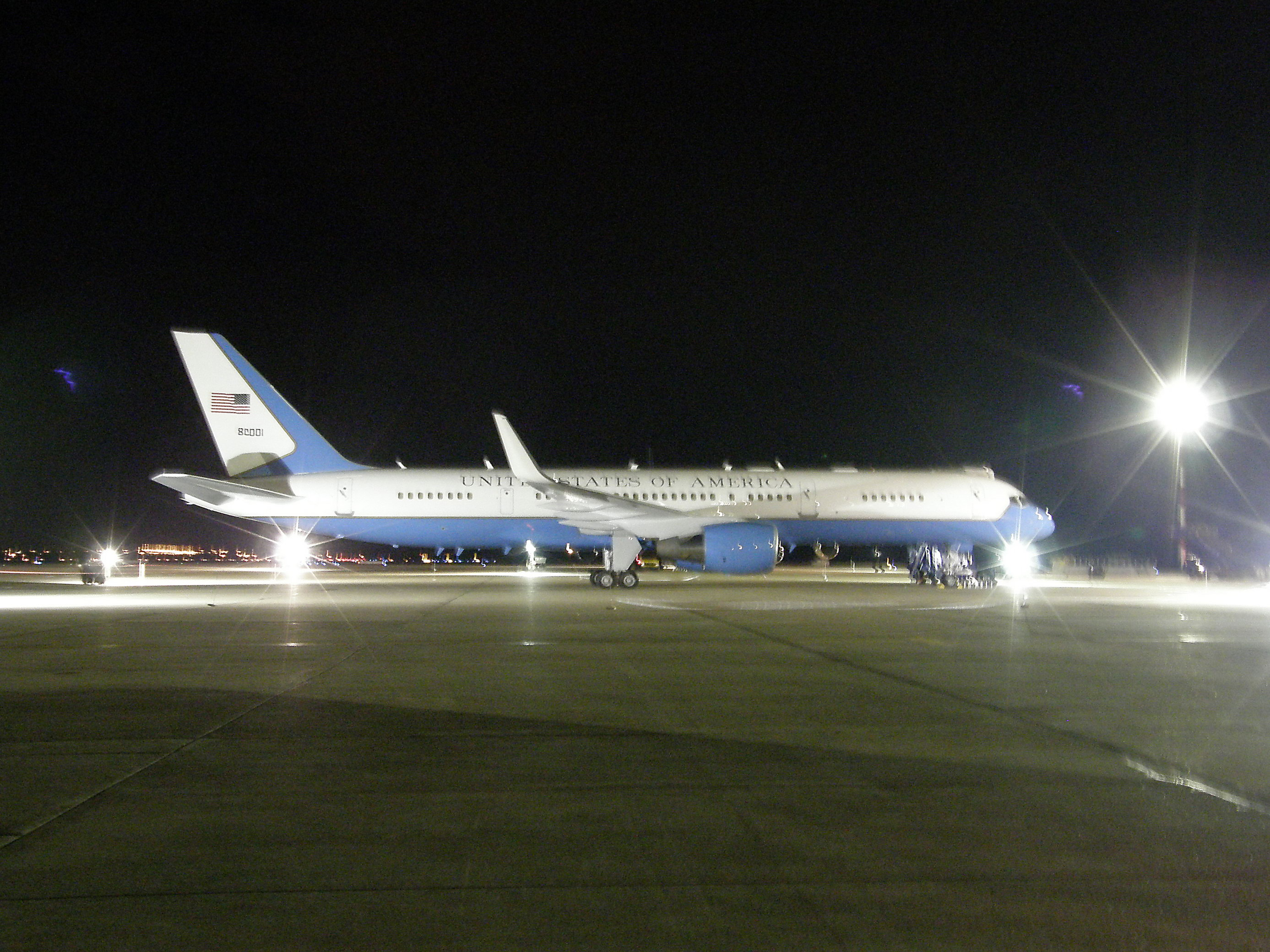 C-32, Air Force Two on Airport Zagreb at the night.